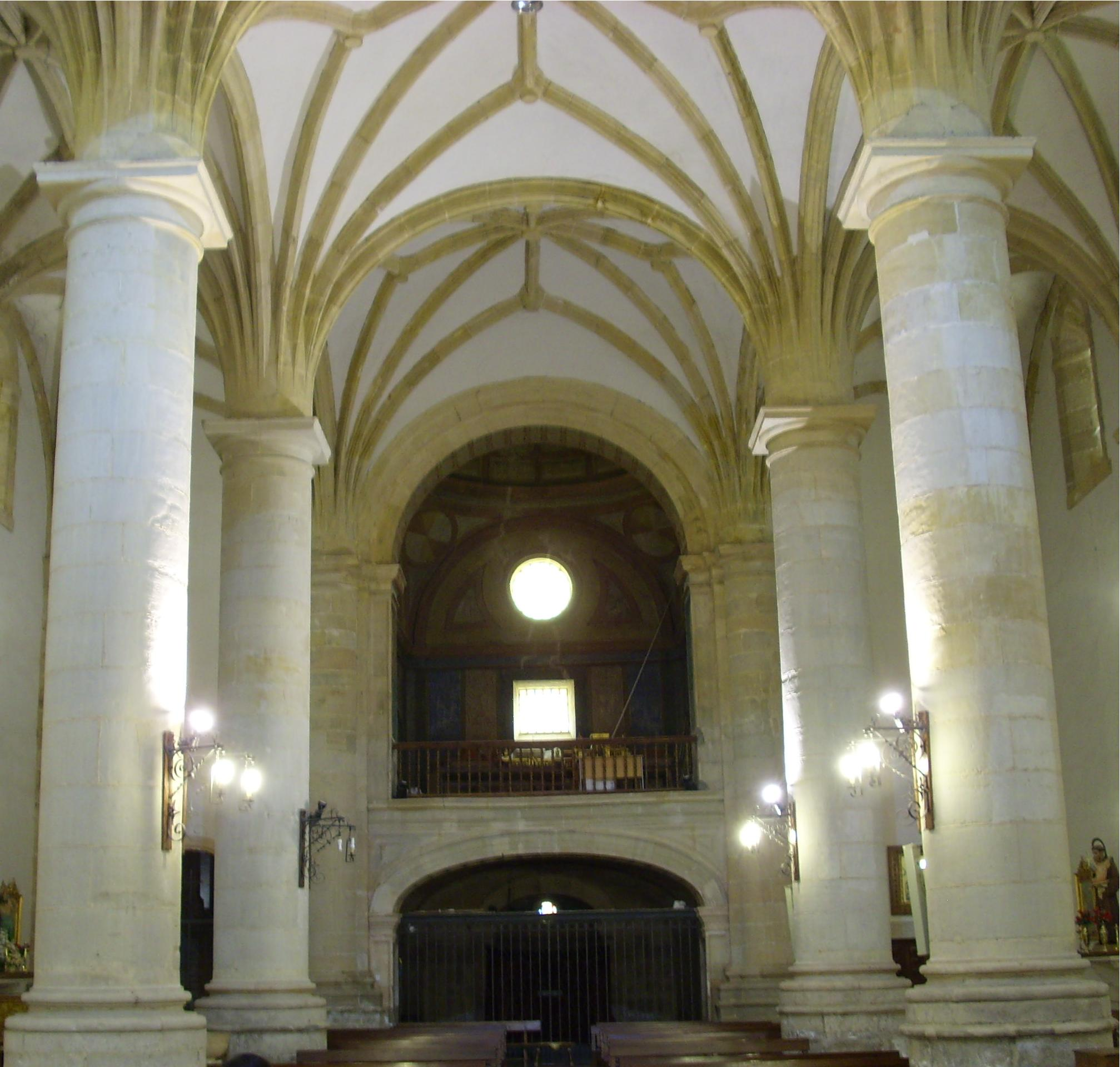 View of Assupmtion church, Sacedón (Guadalajara, Spain)